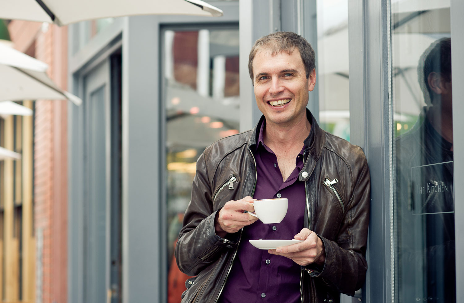 Image of Kimbal Musk, co-founder of The Kitchen